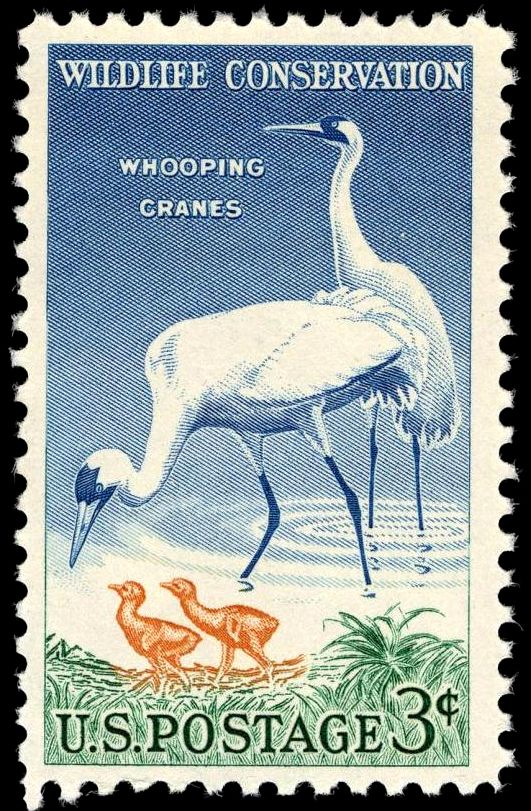 Image of U.S. Postage stamp, Wildlife Conservation Issue 3c 1957